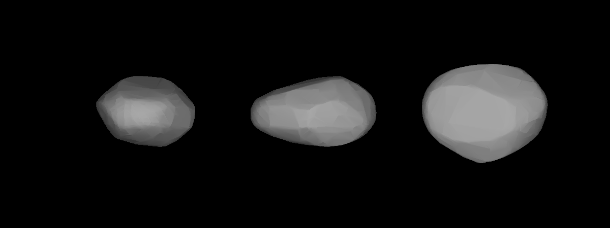 A three-dimensional model of 725 Amanda that was computed using light curve inversion techniques.